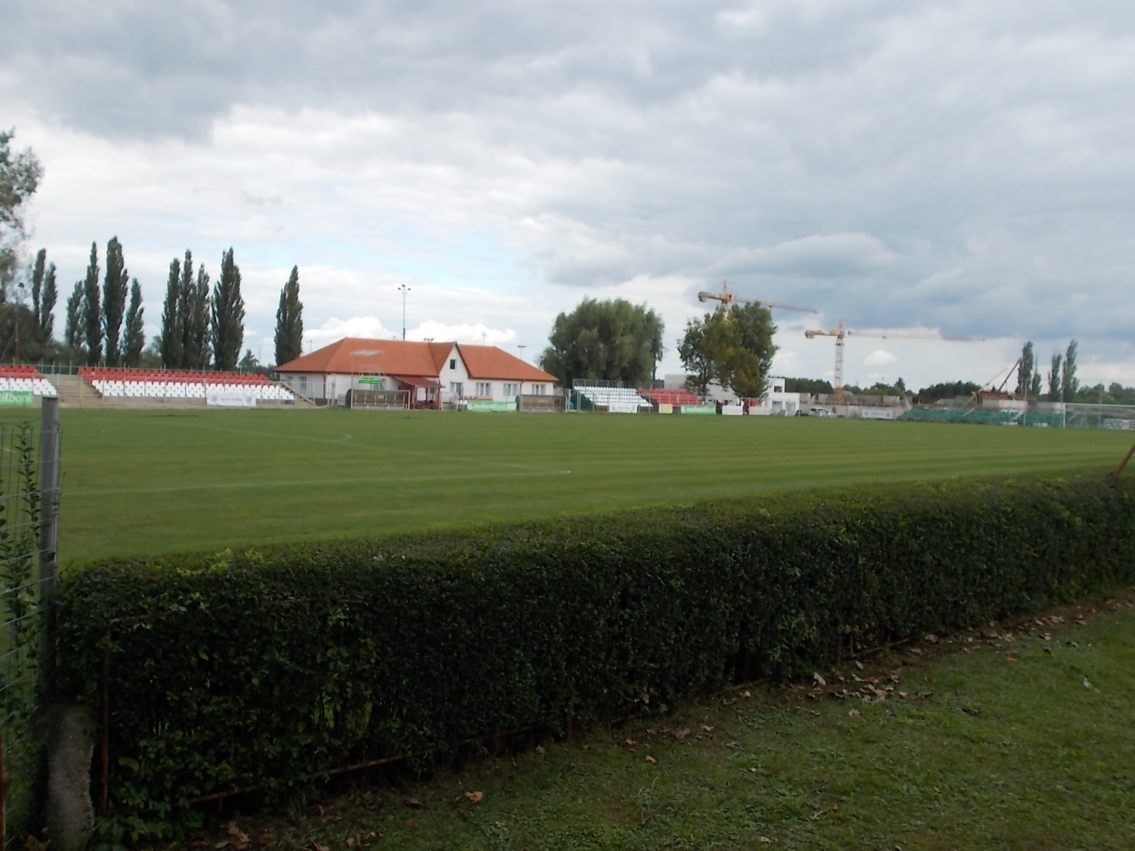 Kisvárda FC 'old' soccer stadium. - Vár Street, Kisvárda, Szabolcs-Szatmár-Bereg County, Hungary.